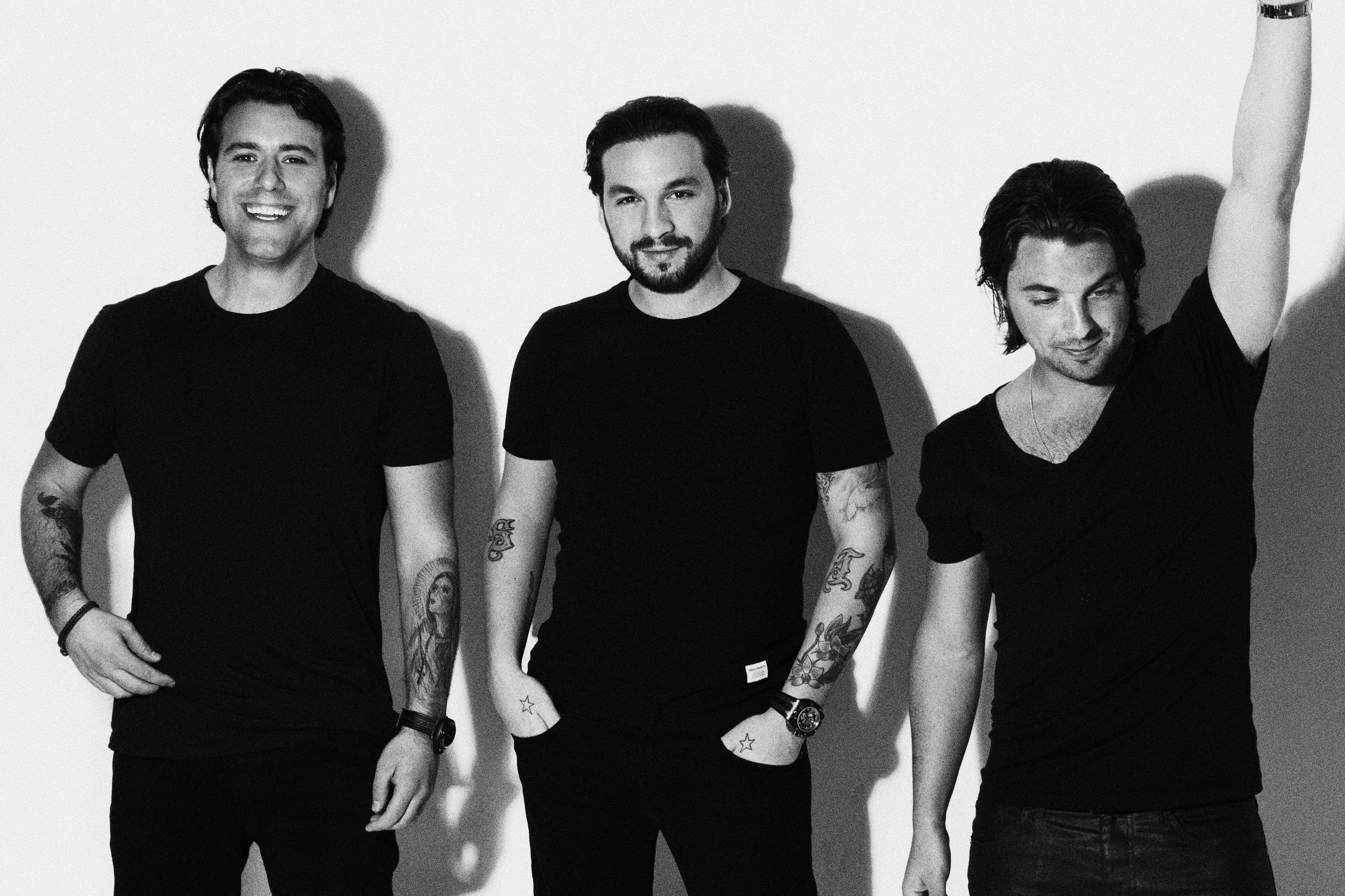 Electronic dance music supergroup Swedish House Mafia. From left to right: Sebastian Ingrosso, Steve Angello and Axwell.